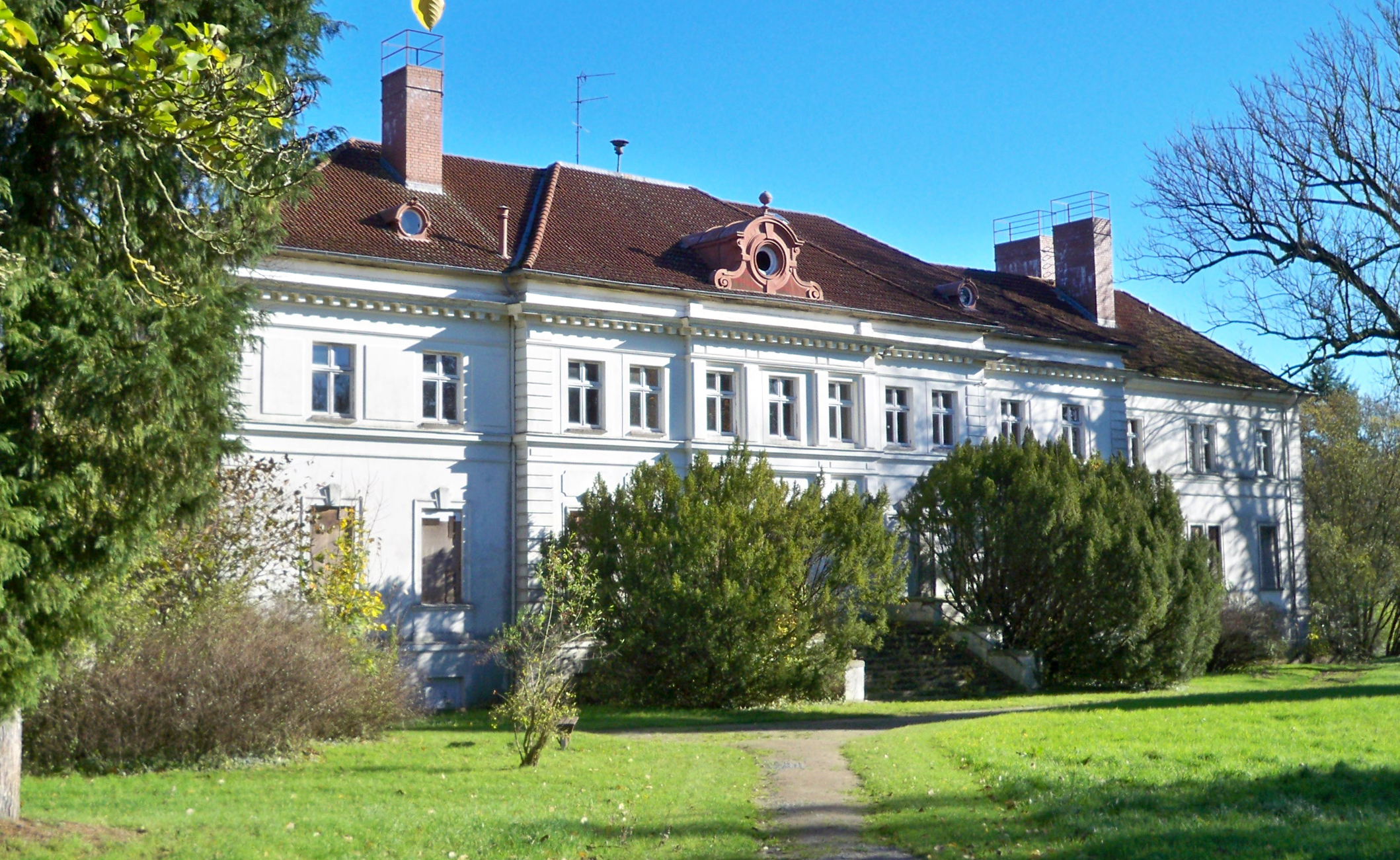 Weteritz, Gardelegen, Saxony-Anhalt, castle